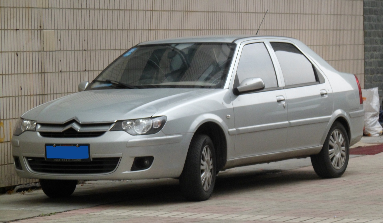 Citroën C-Elysée sedan facelift photographed in Shanghai, China.